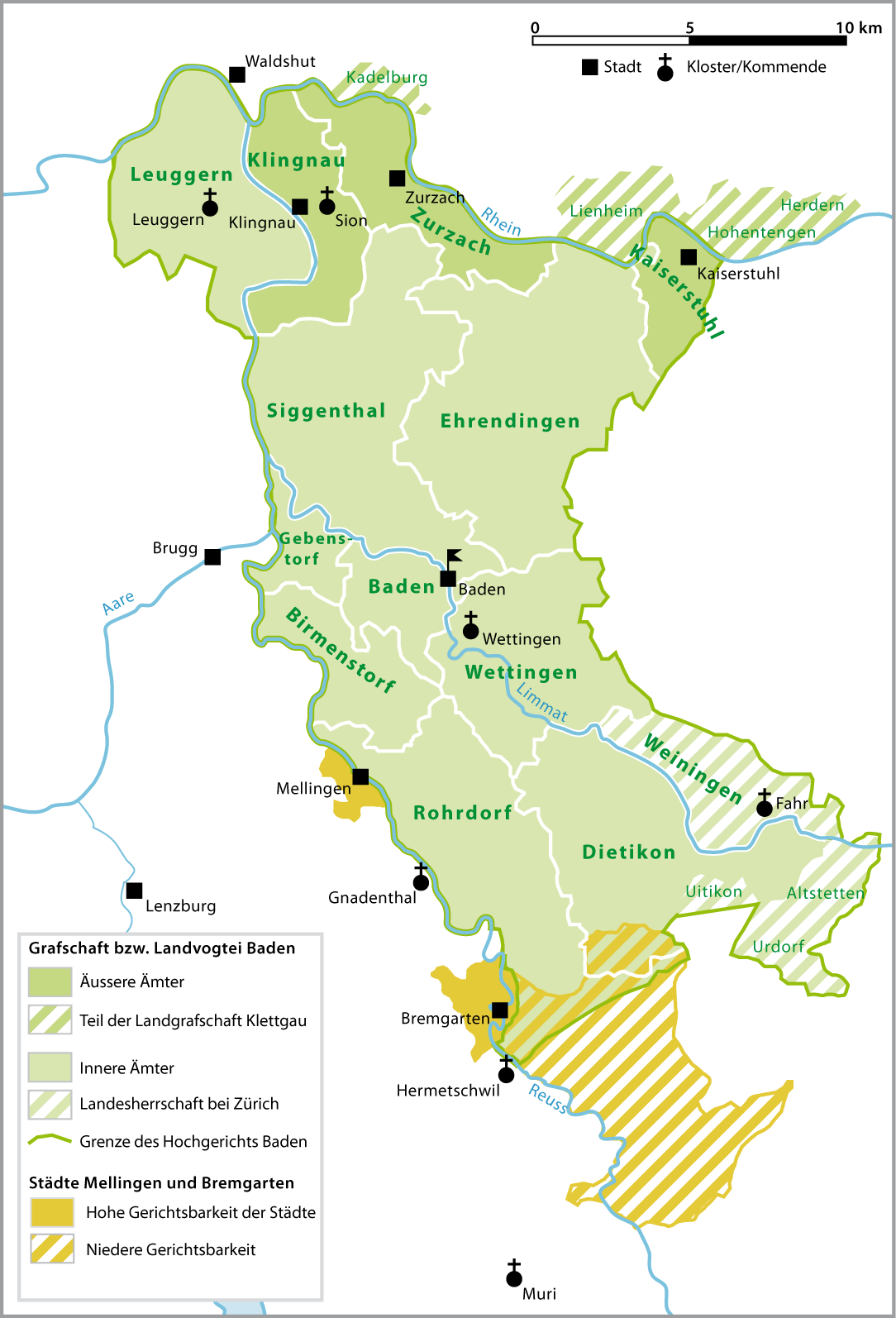 Map of the county of Baden in the Old Swiss Conferacy 1415–1798